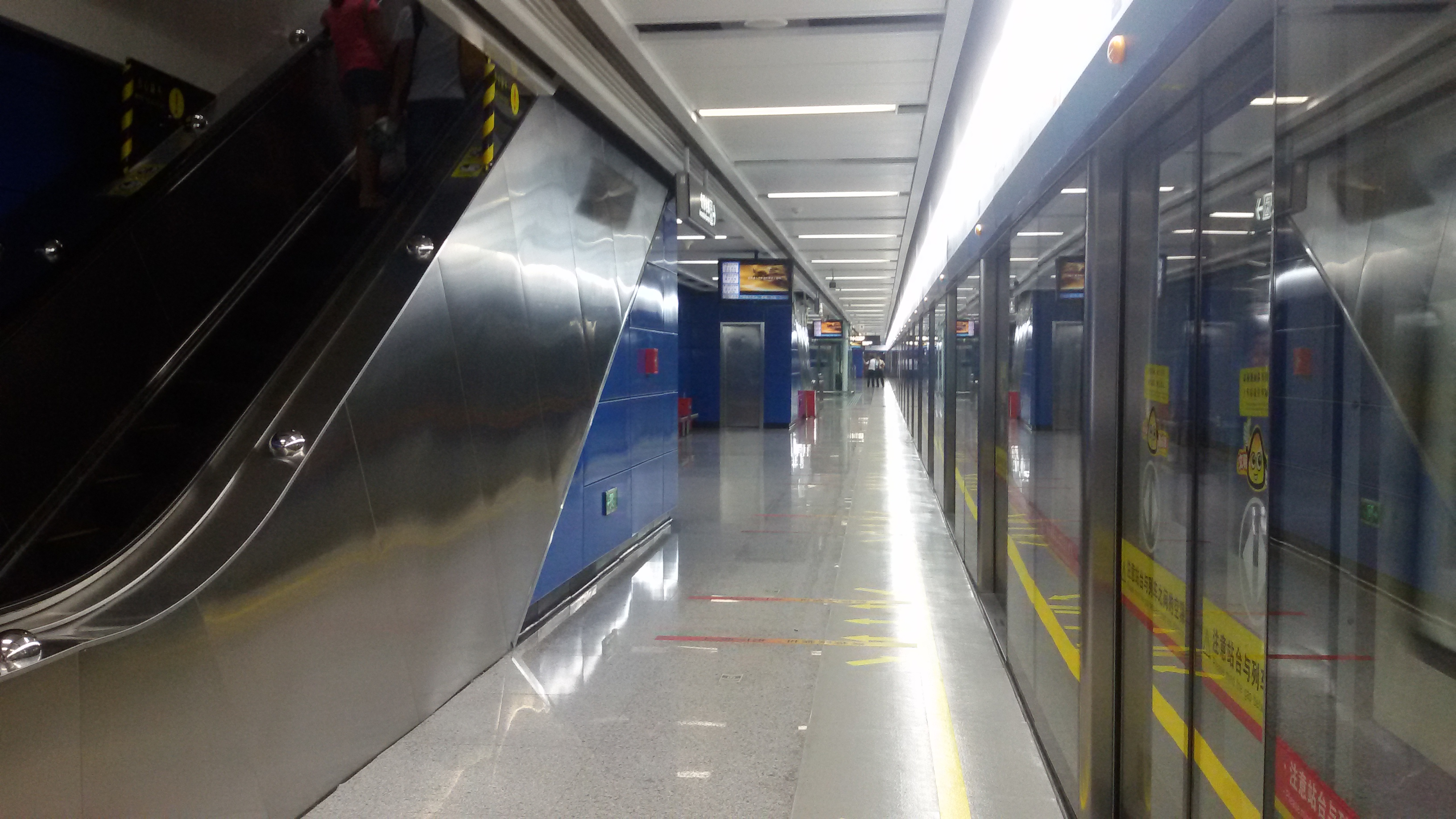 Platform (Towards Jiahe Wanggang Station) for Xiao-gang Station in Guangzhou Metro 粵語: 廣州地鐵，蕭崗站（去嘉禾望崗嗰邊）嘅月台。